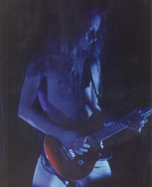 Jerry Cantrell playing with Alice in Chains at The Channel in Boston, MA.